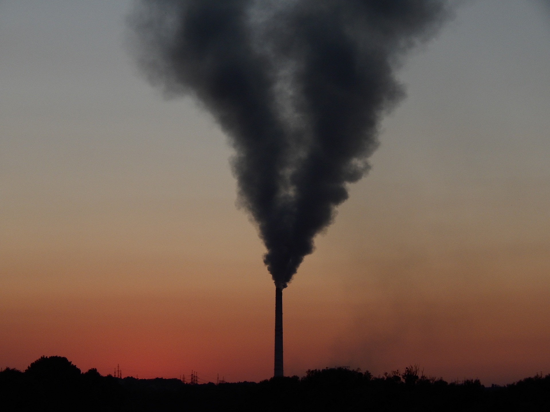 Ladyzyn thermal power plant is a major source of air pollution in Vinnytsia region.